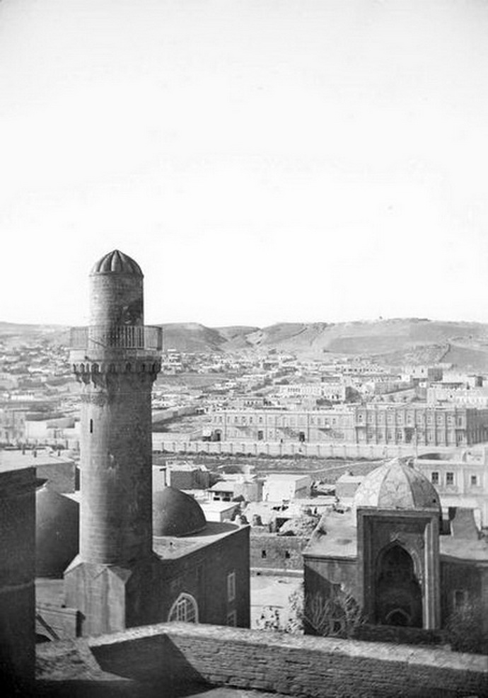 Old Baku